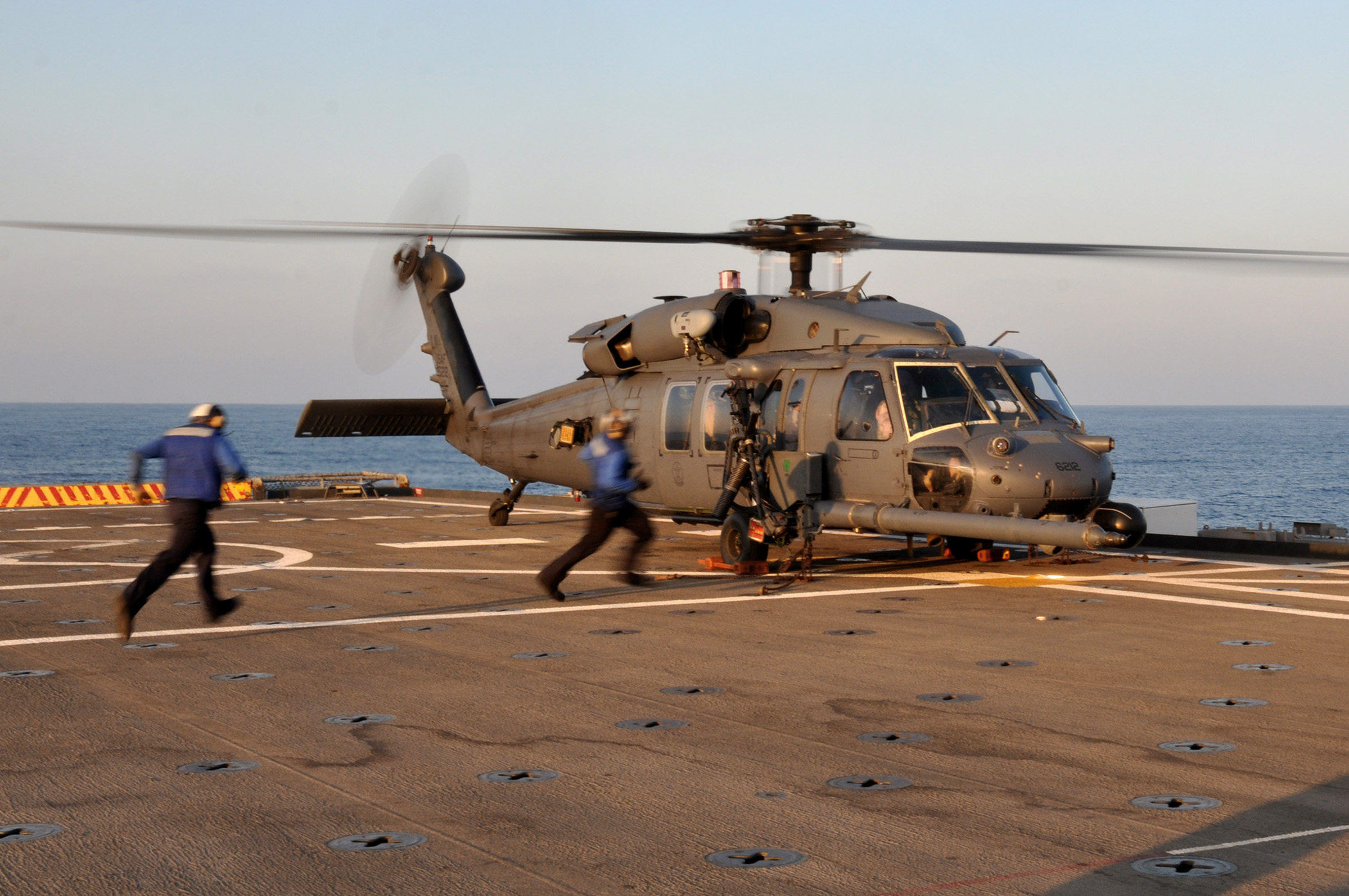 U.S. Navy Aviation Support Equipment Technician Airman Riley Tanner (left) and Aviation Boatswain's Mate (Handler) Airman David Singh run to remove the chocks and chains securing a U.S. Air Force Sikorsky HH-60G Pave Hawk from the 56th Rescue Squadron so it can take off from amphibious transport dock USS Ponce (LPD-15) during evening training operations. Elements of the 56th Rescue Squadron, which is based out of RAF Lakenheath, England (UK), embarked aboard Ponce to provide search and rescue coverage for pilots enforcing the no-fly zone over Libya. Ponce was part of Kearsarge Amphibious Ready Group, supporting maritime security operations and theater security cooperation efforts in the U.S. 6th Fleet area of responsibility.